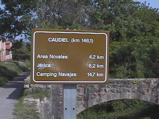 Signal in the trail rail ojos negros